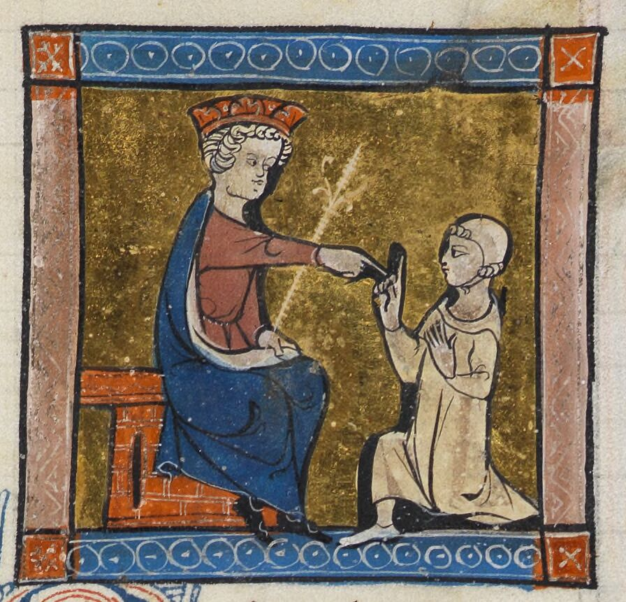 Andronikos I Komnenos